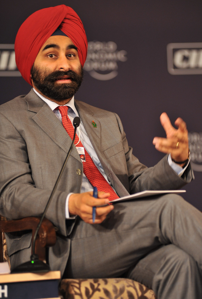 Shivinder Singh in the Plenary Impatient India. Participants captured during the World Economic Forum's India Economic Summit 2009 held in New Delhi, 8-10 November 2009.